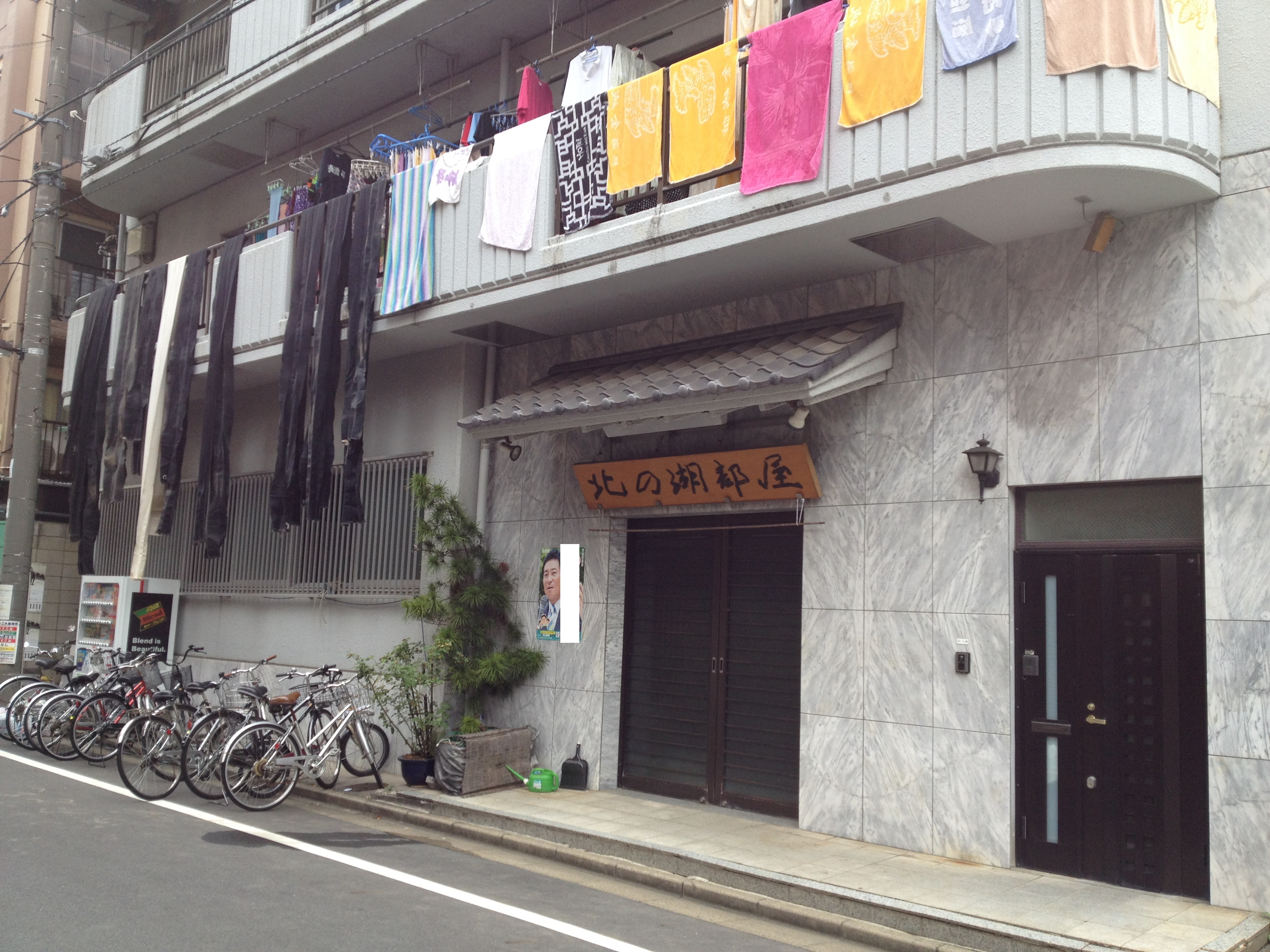 Front door of stable